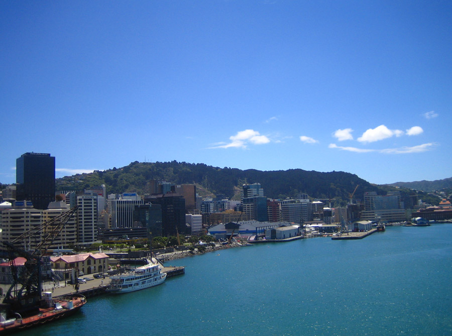 Wellington (New Zealand) CBD and port, looking north towards Tinakori Hill